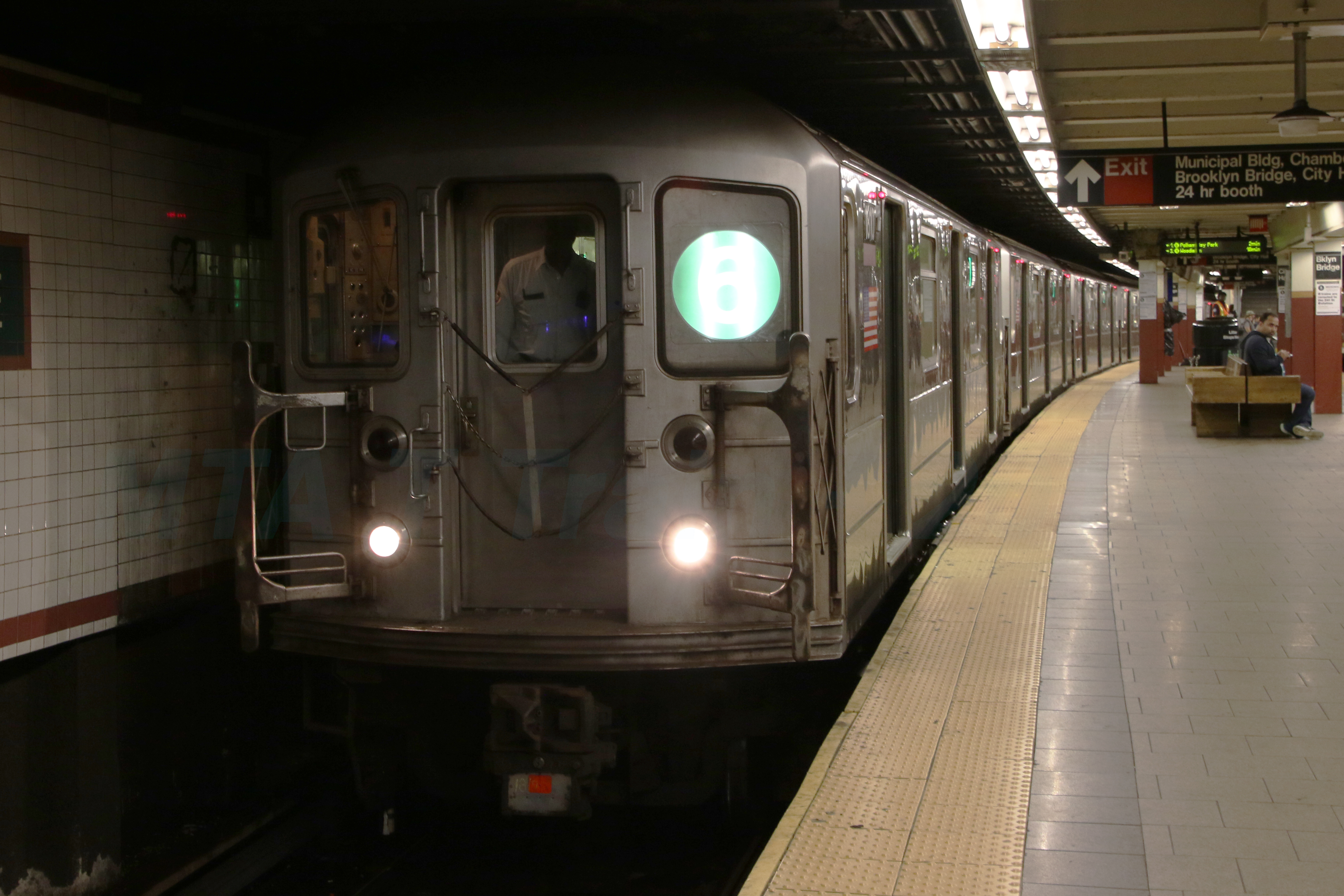 Pelham Bay Park-bound MTA NYC Subway 6 train of Bombardier Transportation R62A cars at Brooklyn Bridge-City Hall.